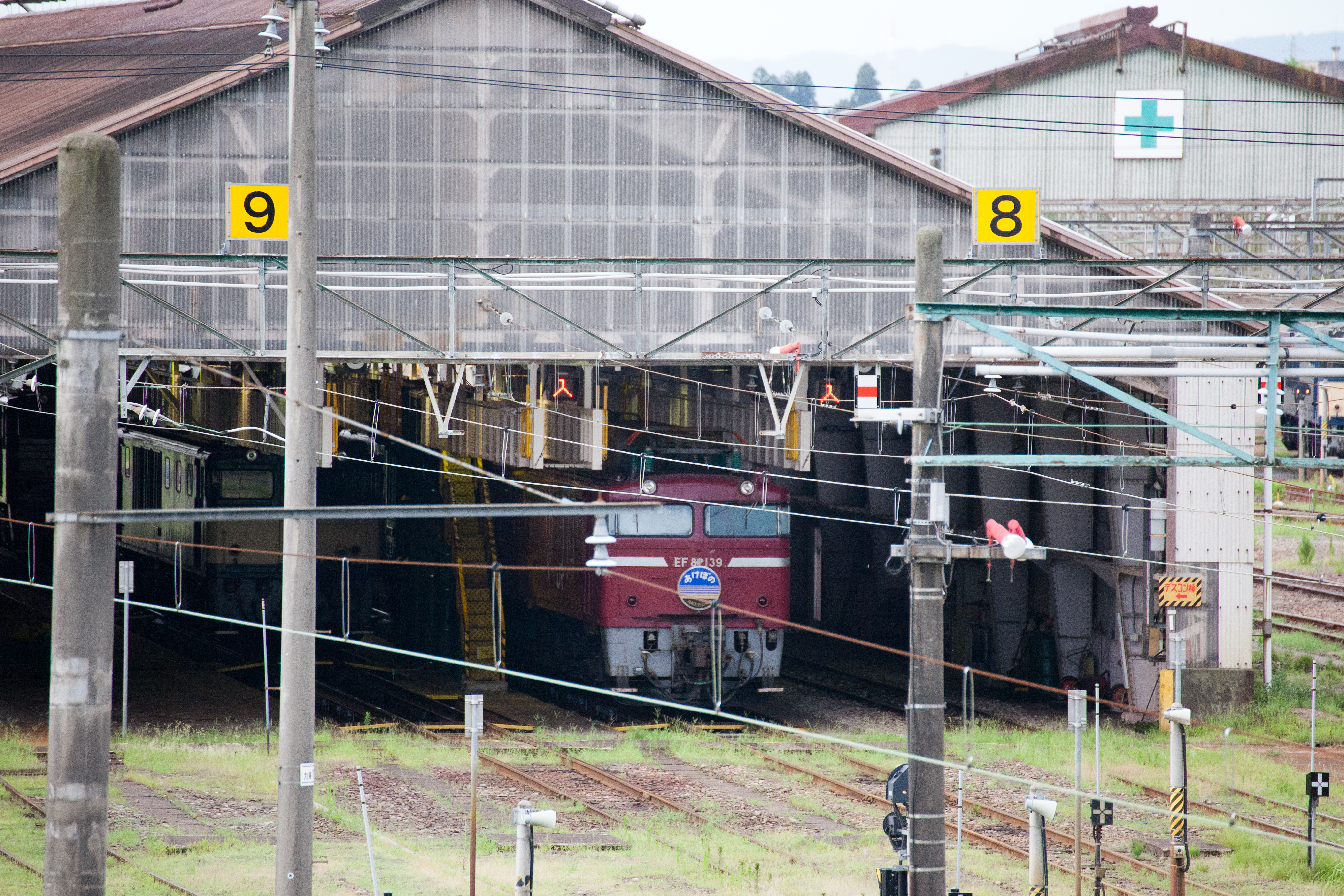 EF81-139, Nagaoka Rolling Stock Center